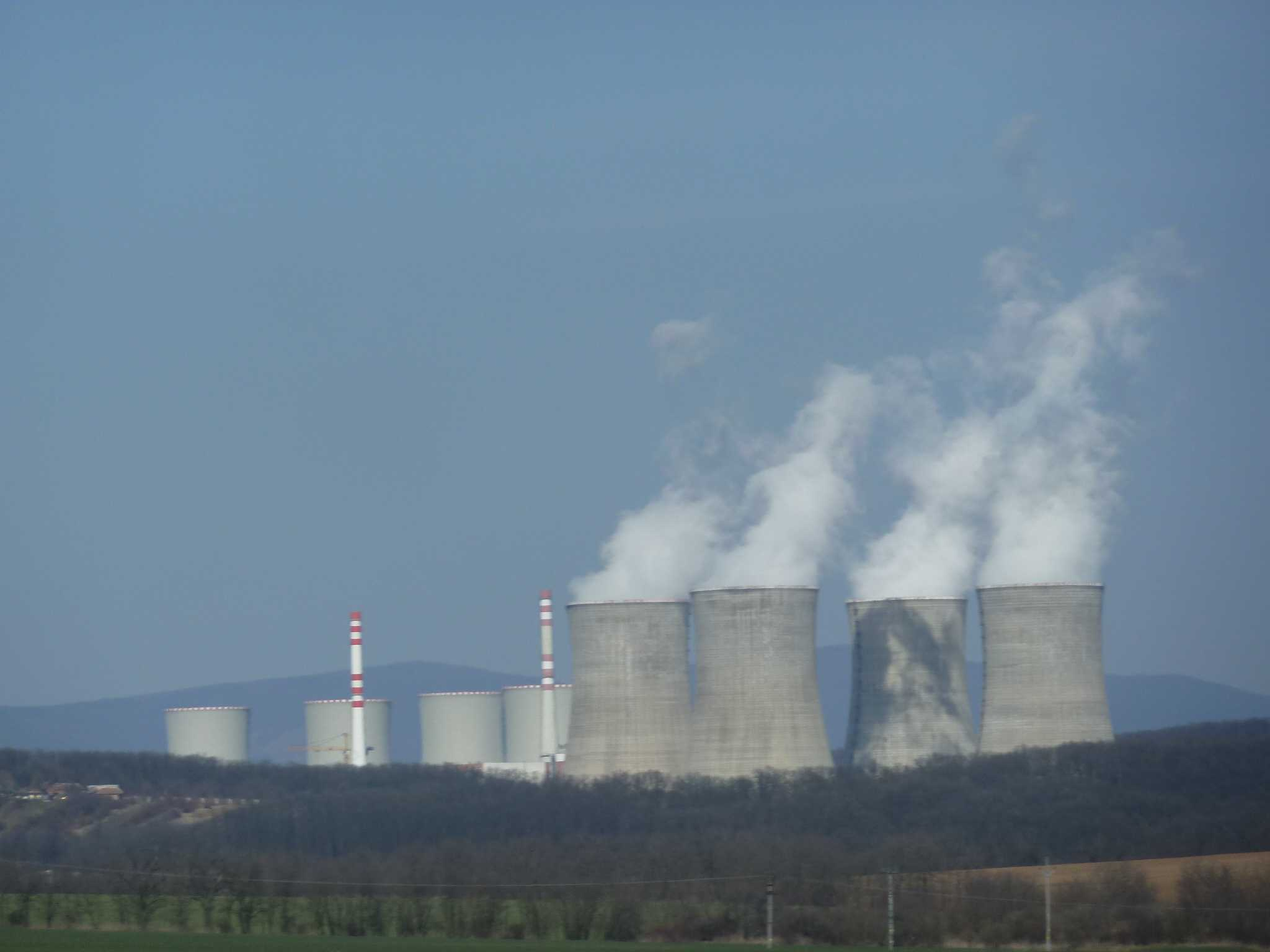 Mochovce Nuclear Power Plant